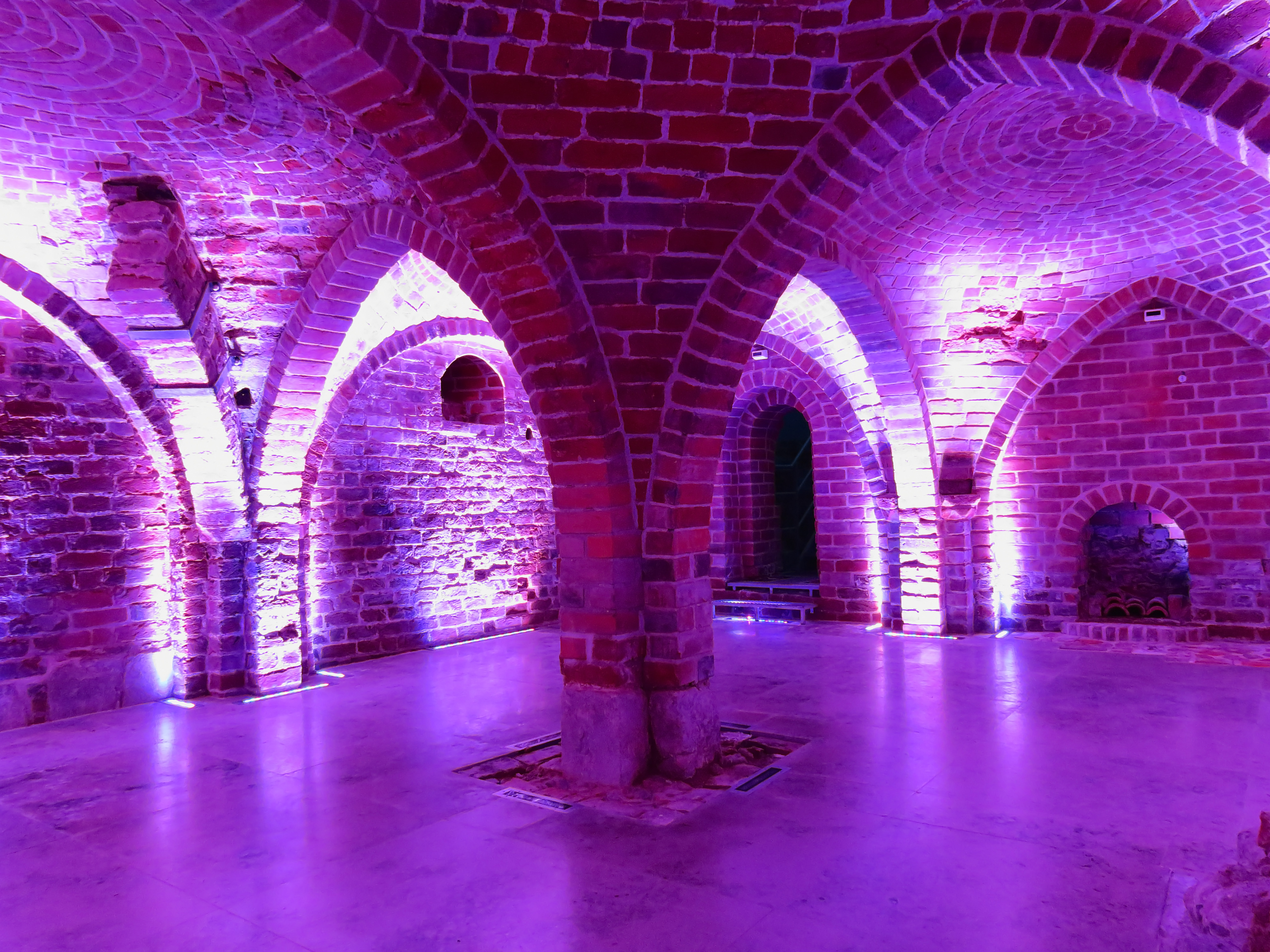 Gdańsk, exposition in the Romanesque Cellar (department of the Archaeological Museum)